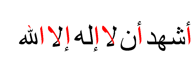 The Shahadah (first part ašhadu 'al-lā ilāha illā-llāh - I testify that there is no god (ilah) but God (Allah)), the creed of Islam. The letter Alif is highlighted in red to demonstrate its different usage in Arabic scripture. This illustration was designed in order to teach the letter Alif, but not the creed itself!